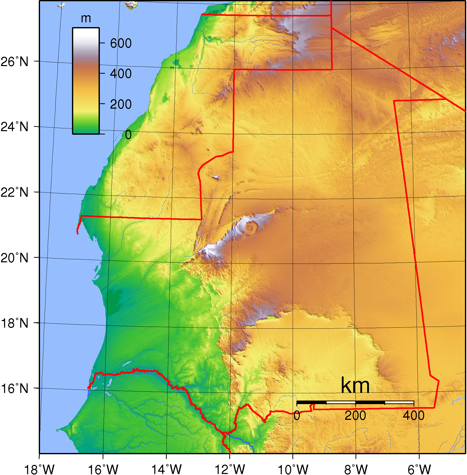 Topography of Mauritania. Created with GMT from GLOBE data.